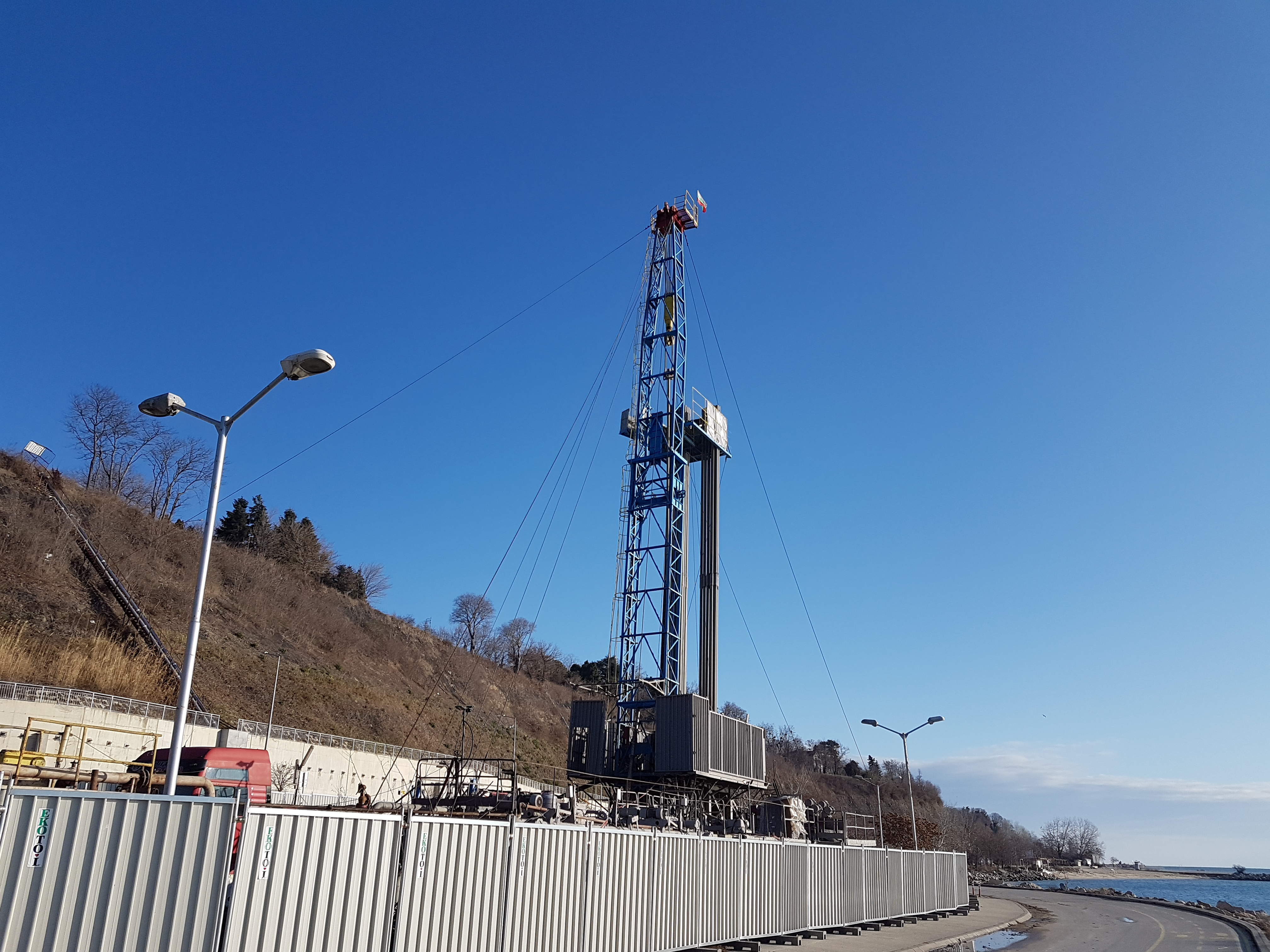 The beach of the sea garden Varna 1.1.2020